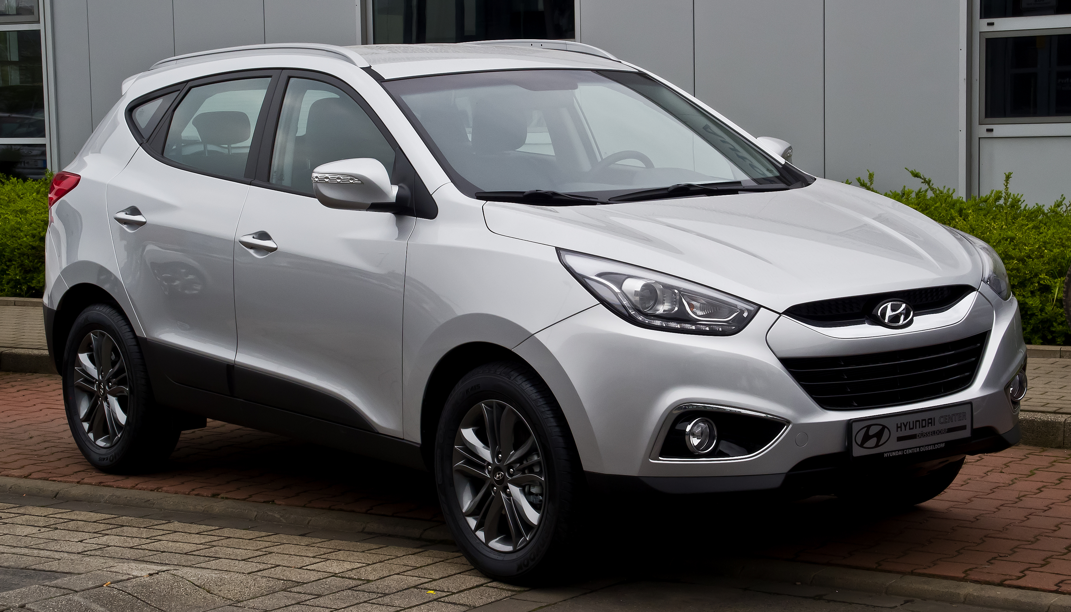 Hyundai ix35 FIFA World Cup Edition (Facelift)